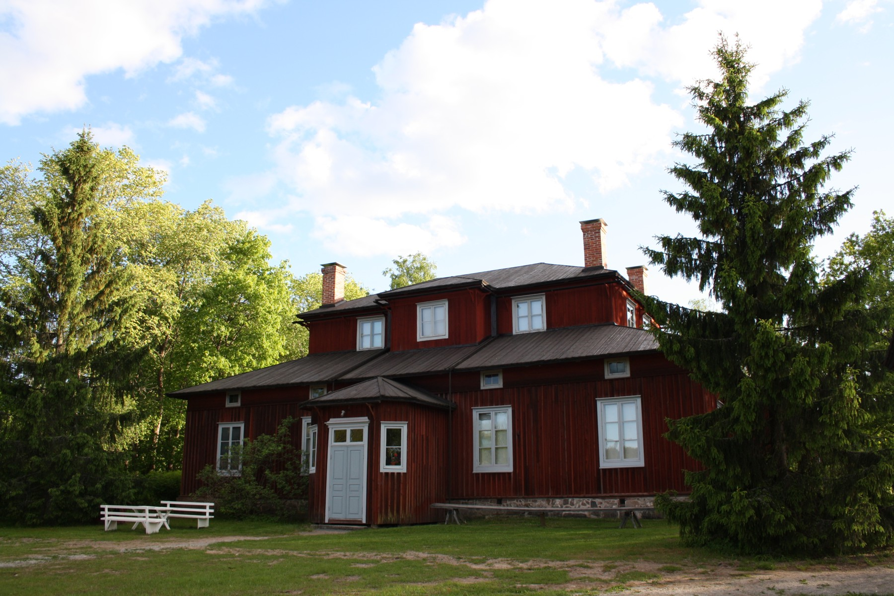 Alikartano (Frugård) manor house, Mäntsälä, Finland.